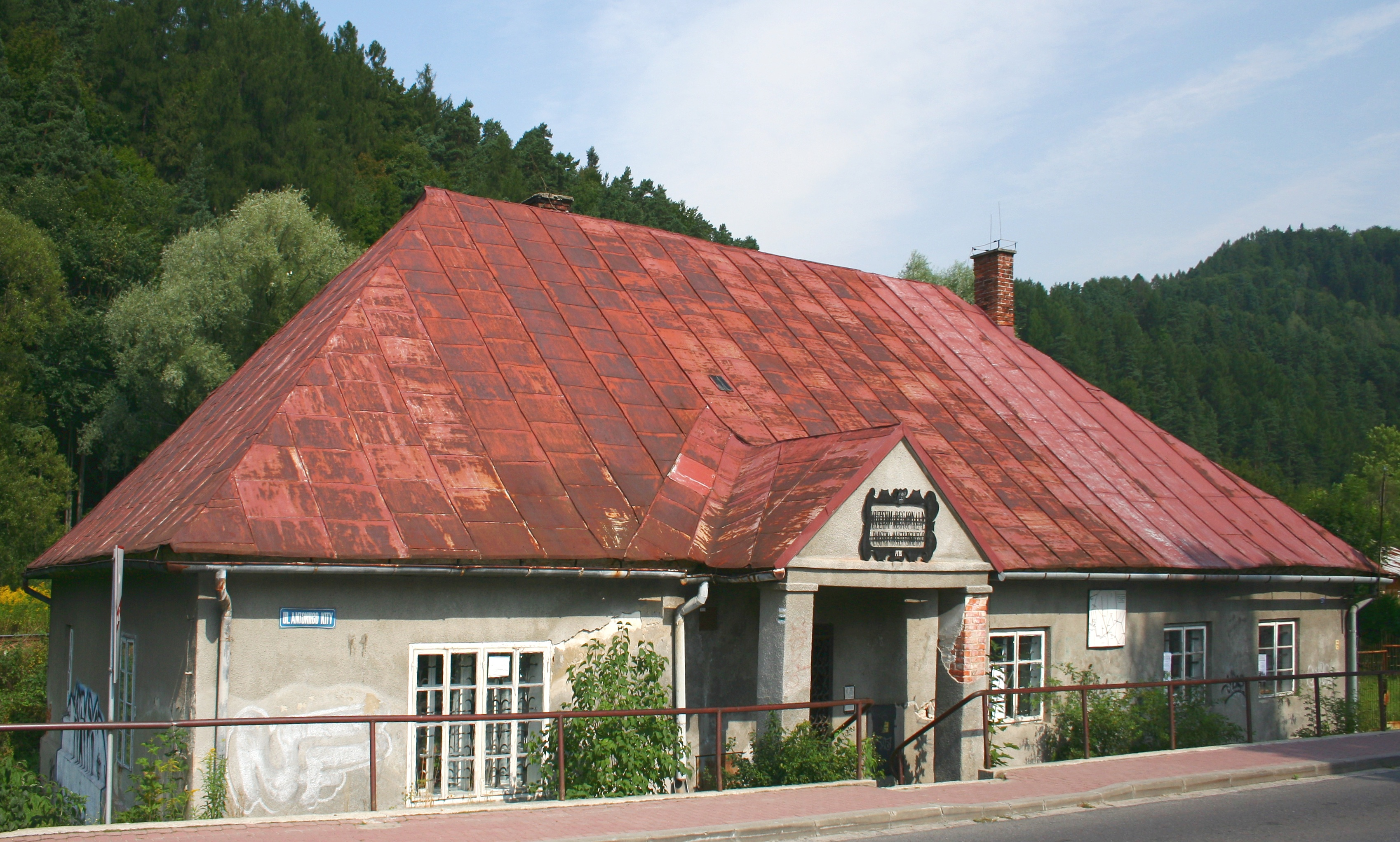 Former museum in Muszyna, Poland